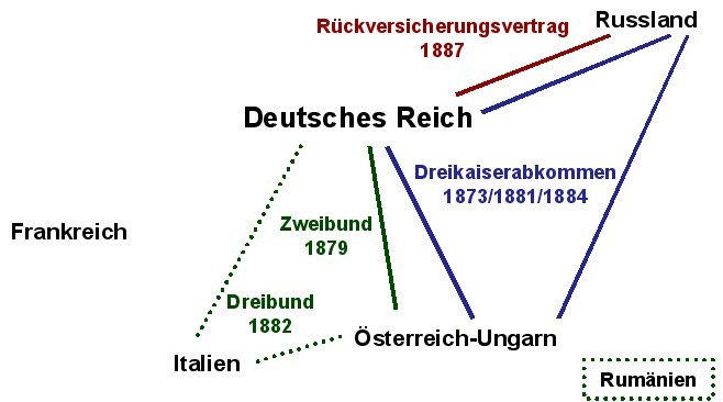 Bismarck's alliances